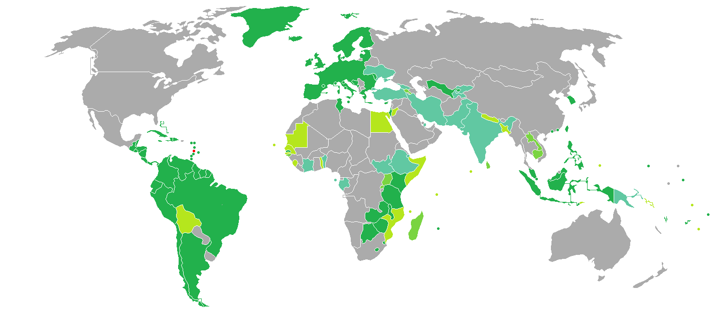 Visa requirements for Saint Lucian citizens Saint Lucia Visa free access Visa on arrival eVisa Visa available both on arrival or online Visa required